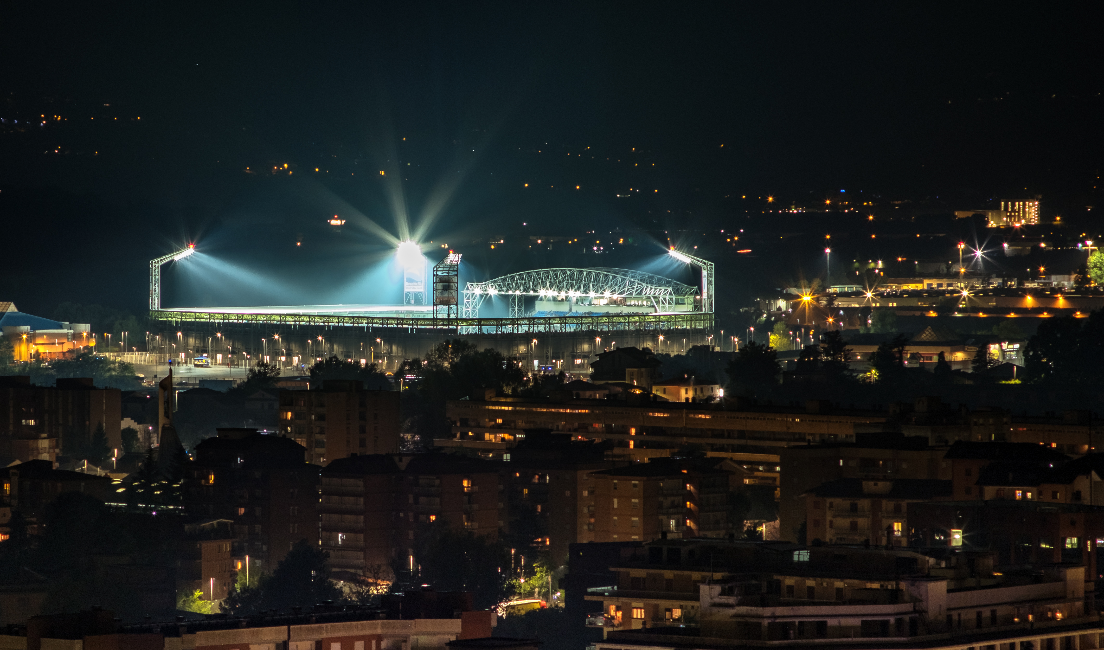 Benito Stirpe Stadium under construction. View from Piazzale Vittorio Veneto, by night.